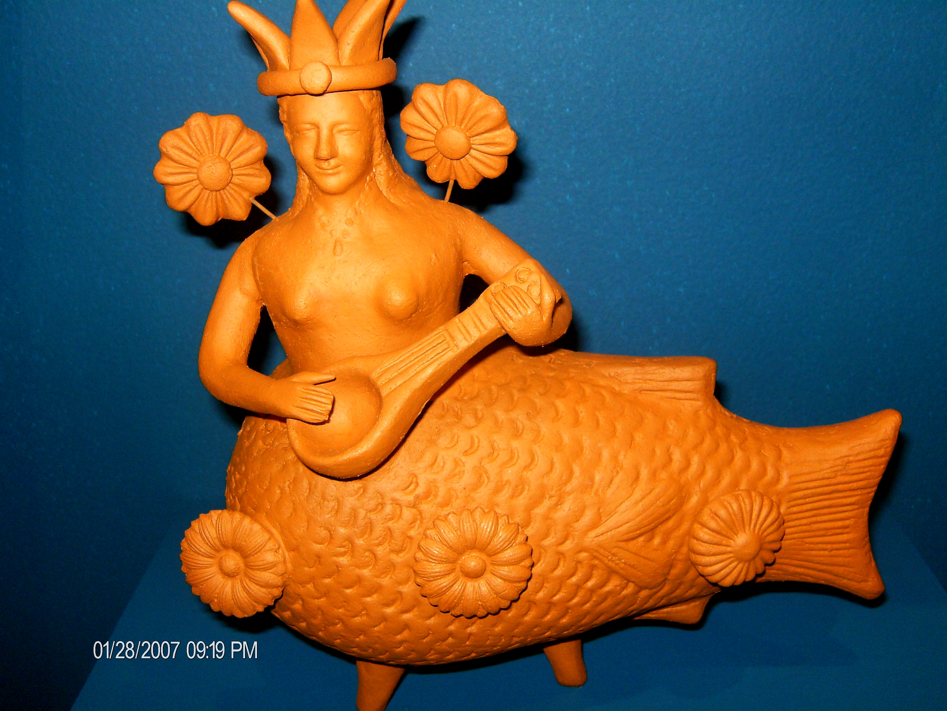 Sirena de barro natural exhibida en el Centro Cultural Isidro Fabela